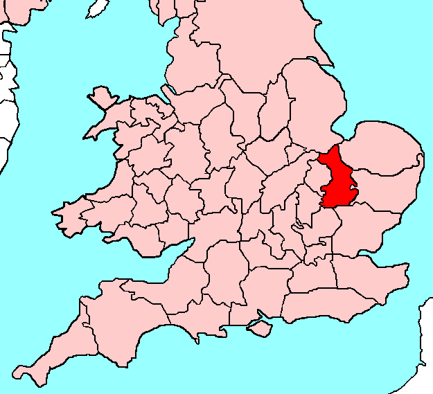 Cambridgeshire